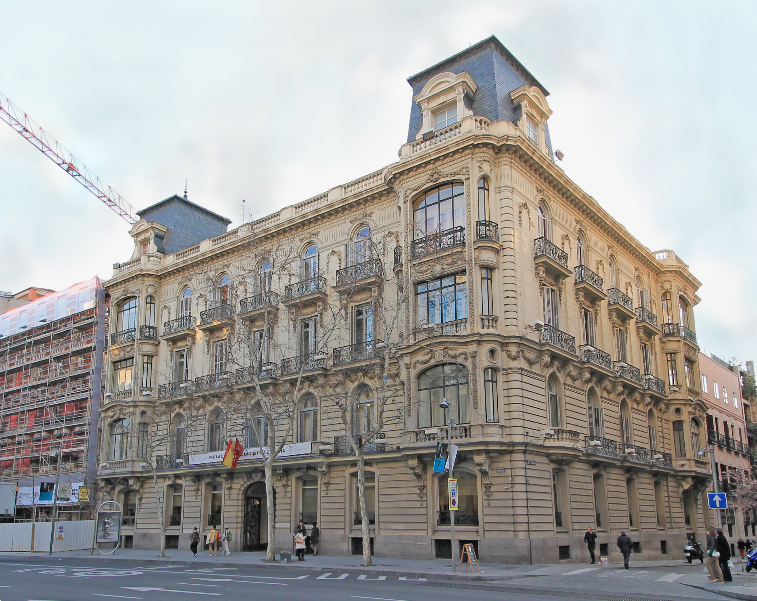 Former mansion of the marquess of Portago in Madrid (Spain).